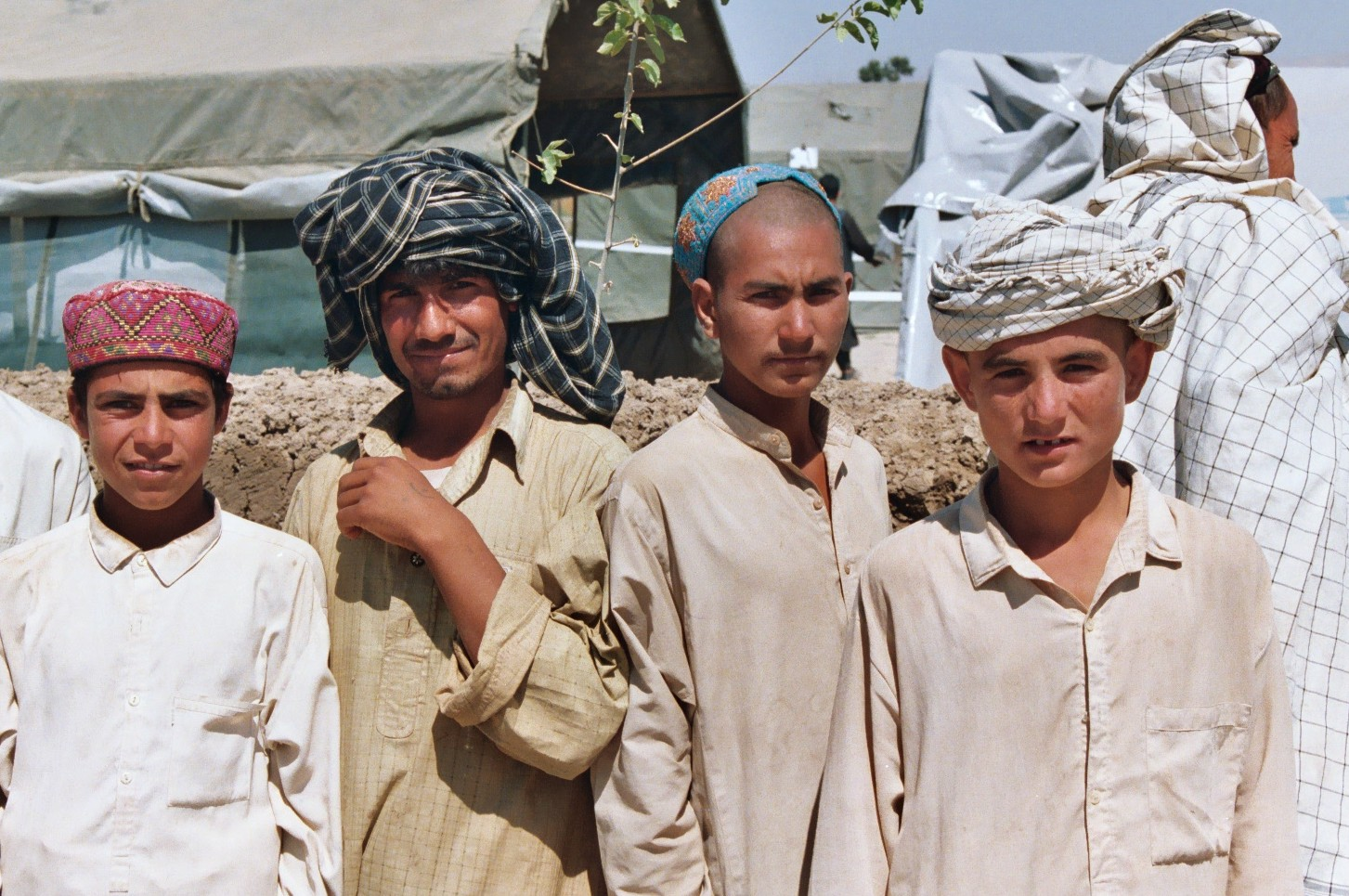 Afghan boys wearing traditional headgear. Kunduz, Afghanistan (June 2003). Photo by Peter Rimar.